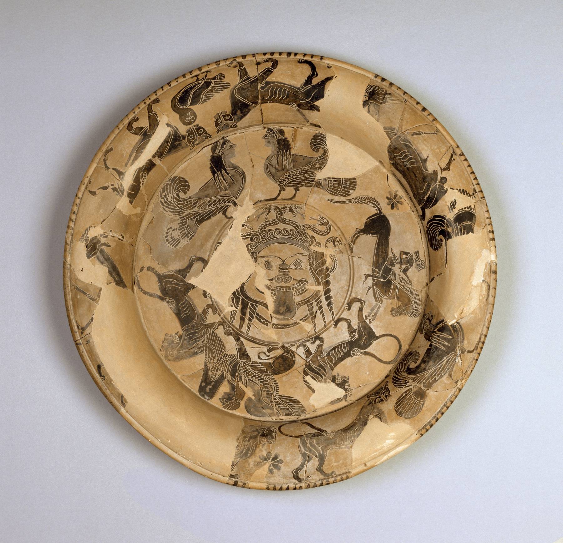 This rare plate was decorated by one of Athens' most important early vase-painters, for whom the Gorgon (a creature with a frightening grimace and snakes for hair) was a favorite subject. Mythical beings such as Gorgons, sphinxes (with a woman's head, an eagle's wings, and a lion's body), and sirens (with a woman's head and a bird's body), all depicted here, were inspired by Eastern models. An owl, panther, goat, lion, and siren form a lively procession around the rim.